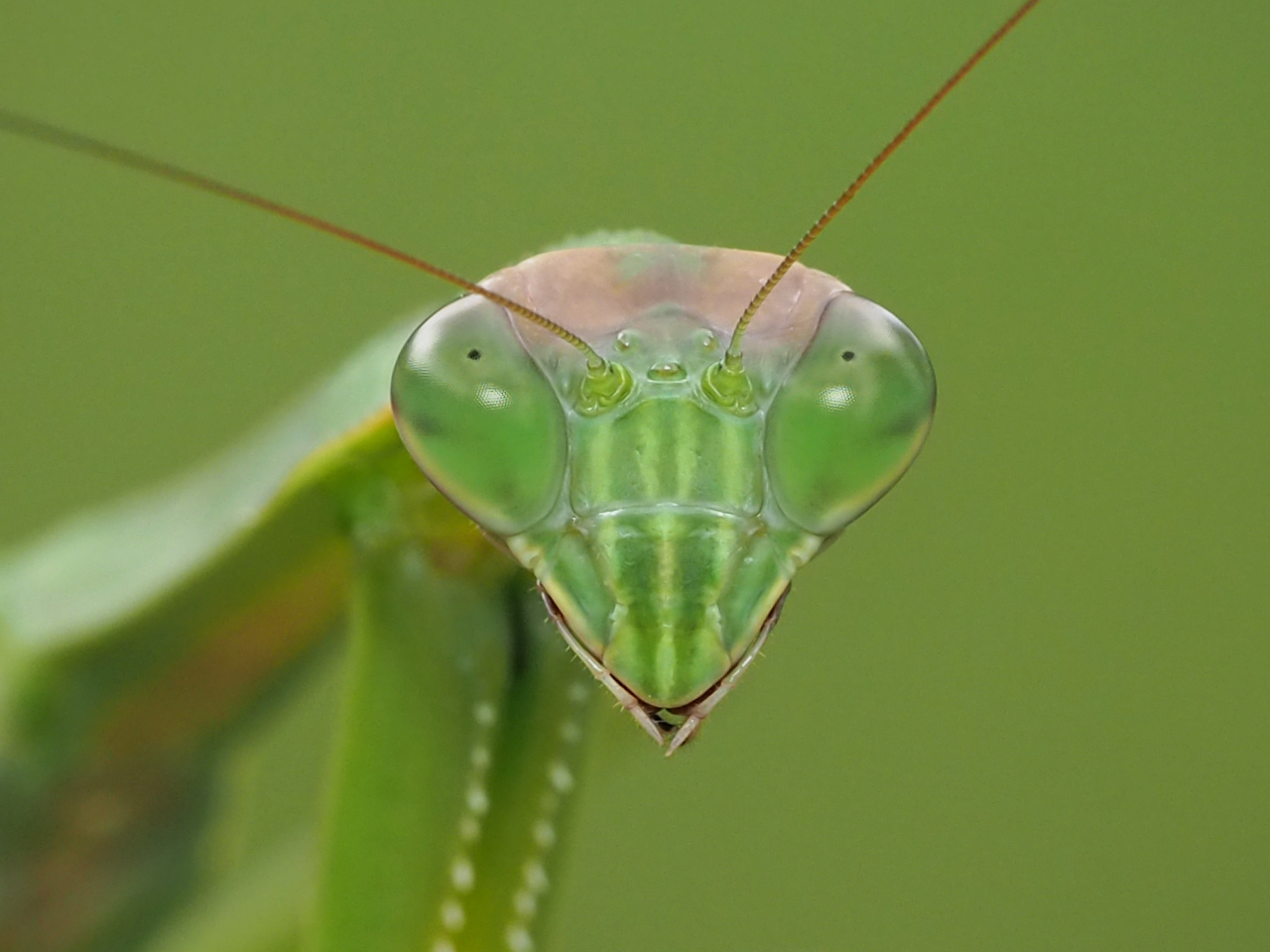 Face of a Chinese Mantis (Tenodera sinensis) in Pennsylvania